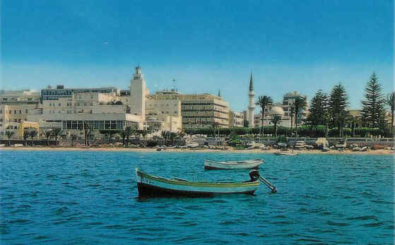 Hotel Casinò Uaddan in Tripoli, Libya on 1960s.